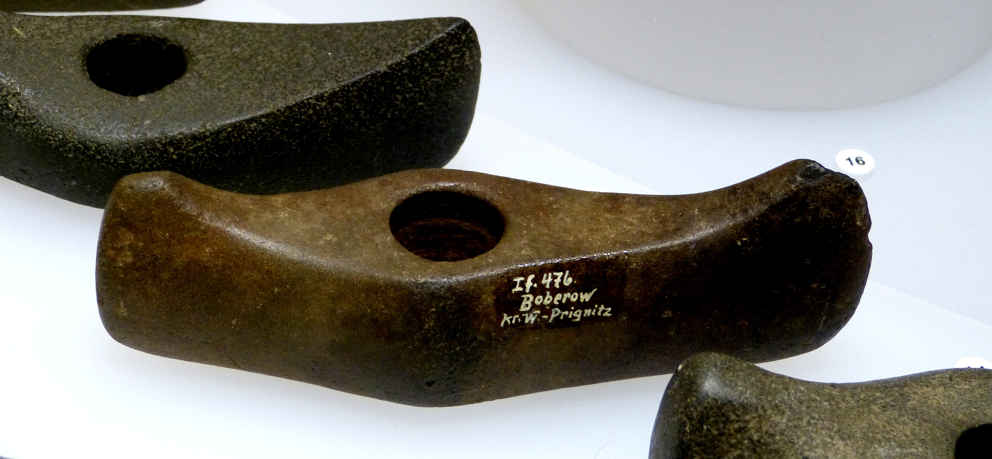 Brandenburg an der Havel ( Germany ) . Archaeological Museum of the state of Brandenburg - Stone Age Gallery:Neolithic boat axe of the Single Grave culture ( 2.800-2.200 BC ), from Boberow.